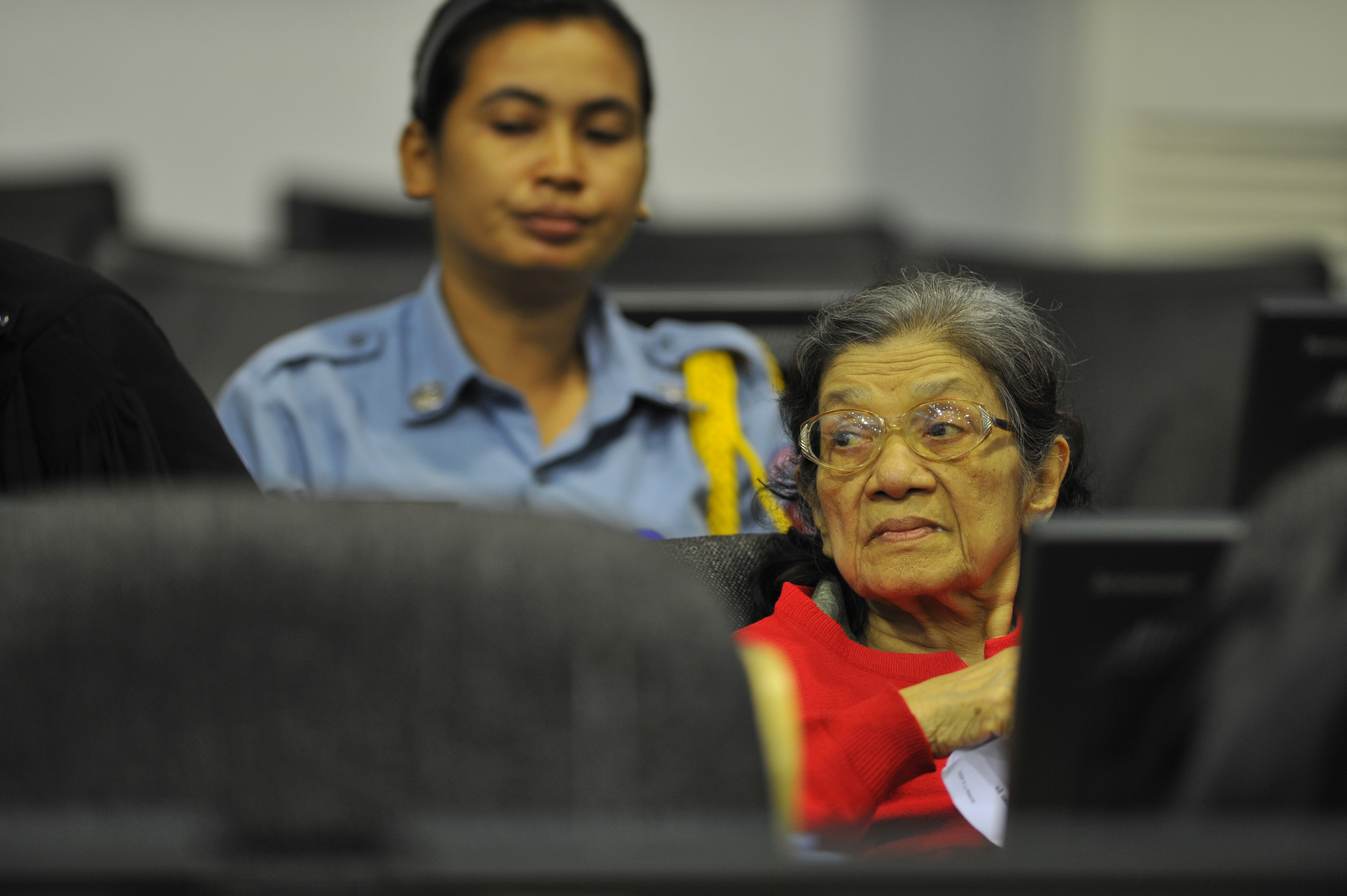 29 Aug 2011: The Trial Chamber held a preliminary hearing on Ieng Thirith's and Nuon Chea`s fitness to stand Trial.